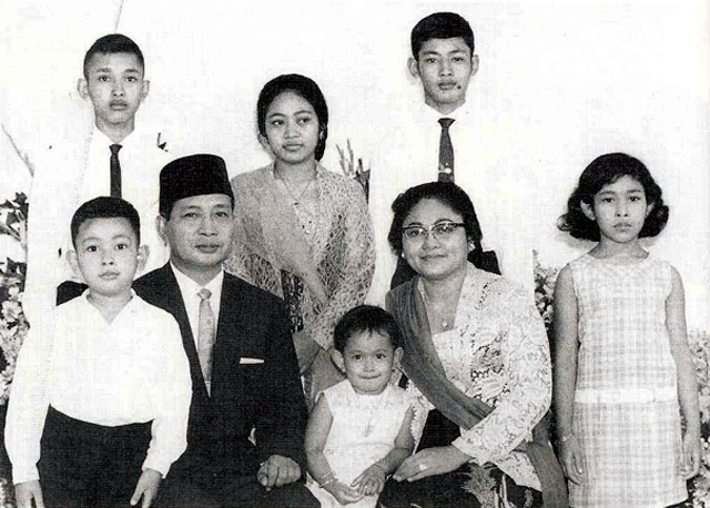 Ex-President Suharto and his wife Siti Hartinah with their sons and daughters. Front row: Hutomo Mandala Putra (born 12 August 1962), President Suharto, Siti Hutami Endang Adiningsih (born 23 August 1964), Siti Hartinah, and Siti Hediati Hariyadi (born 14 April 1959). Back row: Bambang Trihatmodjo (born 23 July 1953), Siti Hardiyanti Hastuti (born 23 January 1949), and Sigit Harjojudanto (born 1 May 1951).